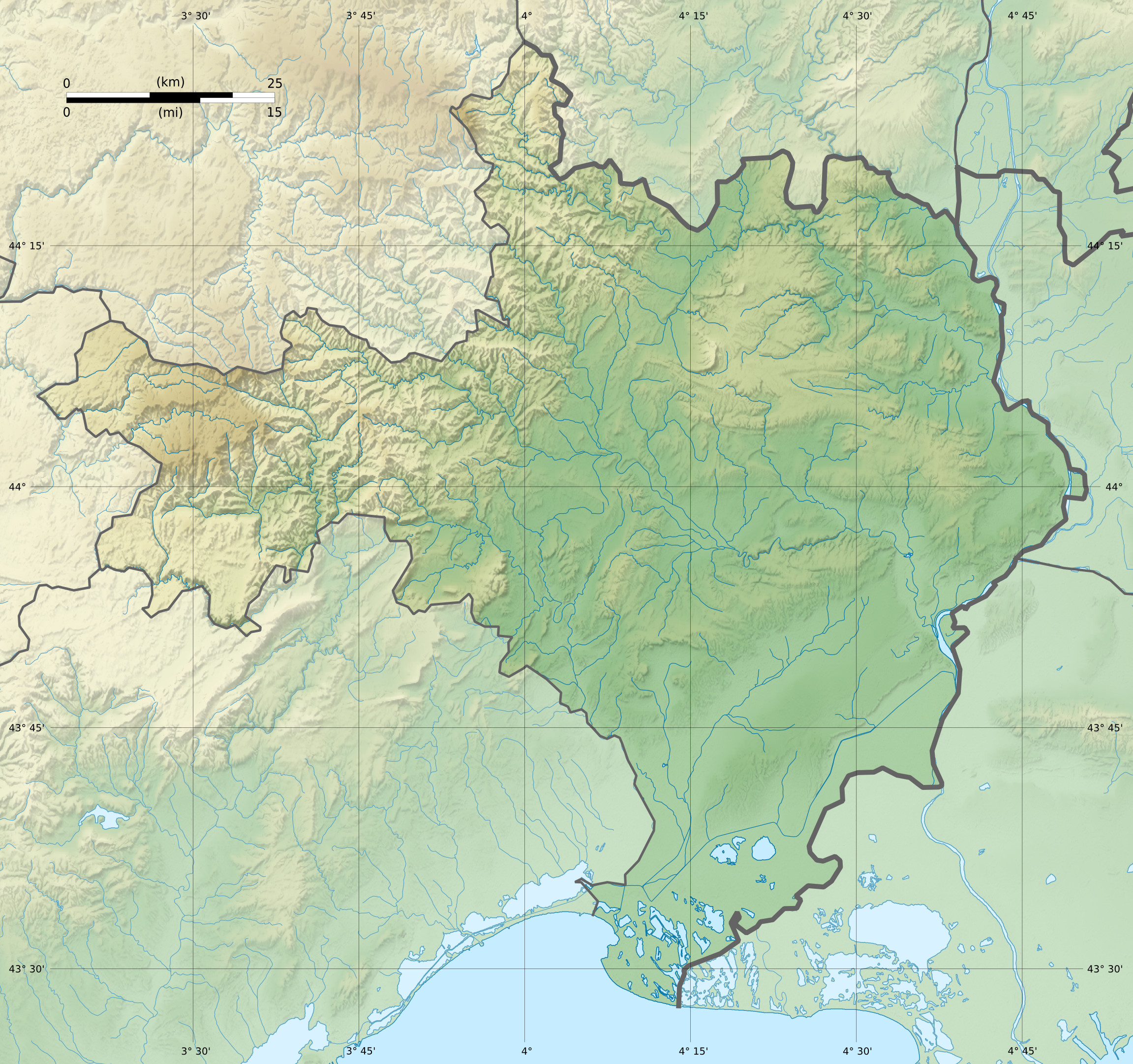 Blank physical map of the department of Gard, France, for geo-location purpose.